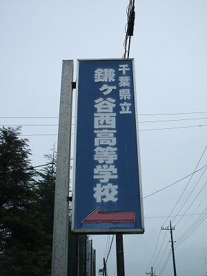 Sign for the Chiba Prefectural Kamagaya Nishi High School